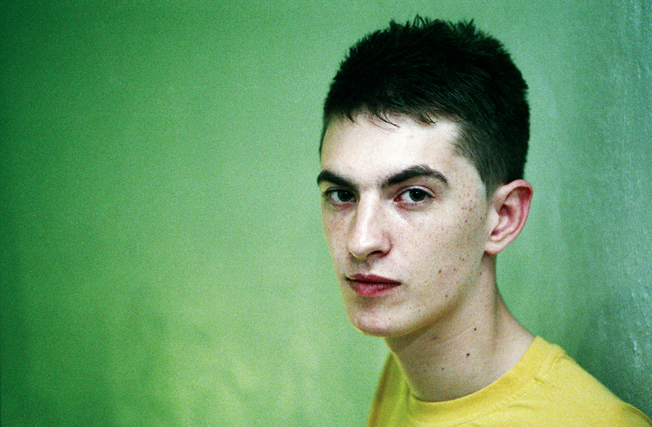 British dubstep producer Skream